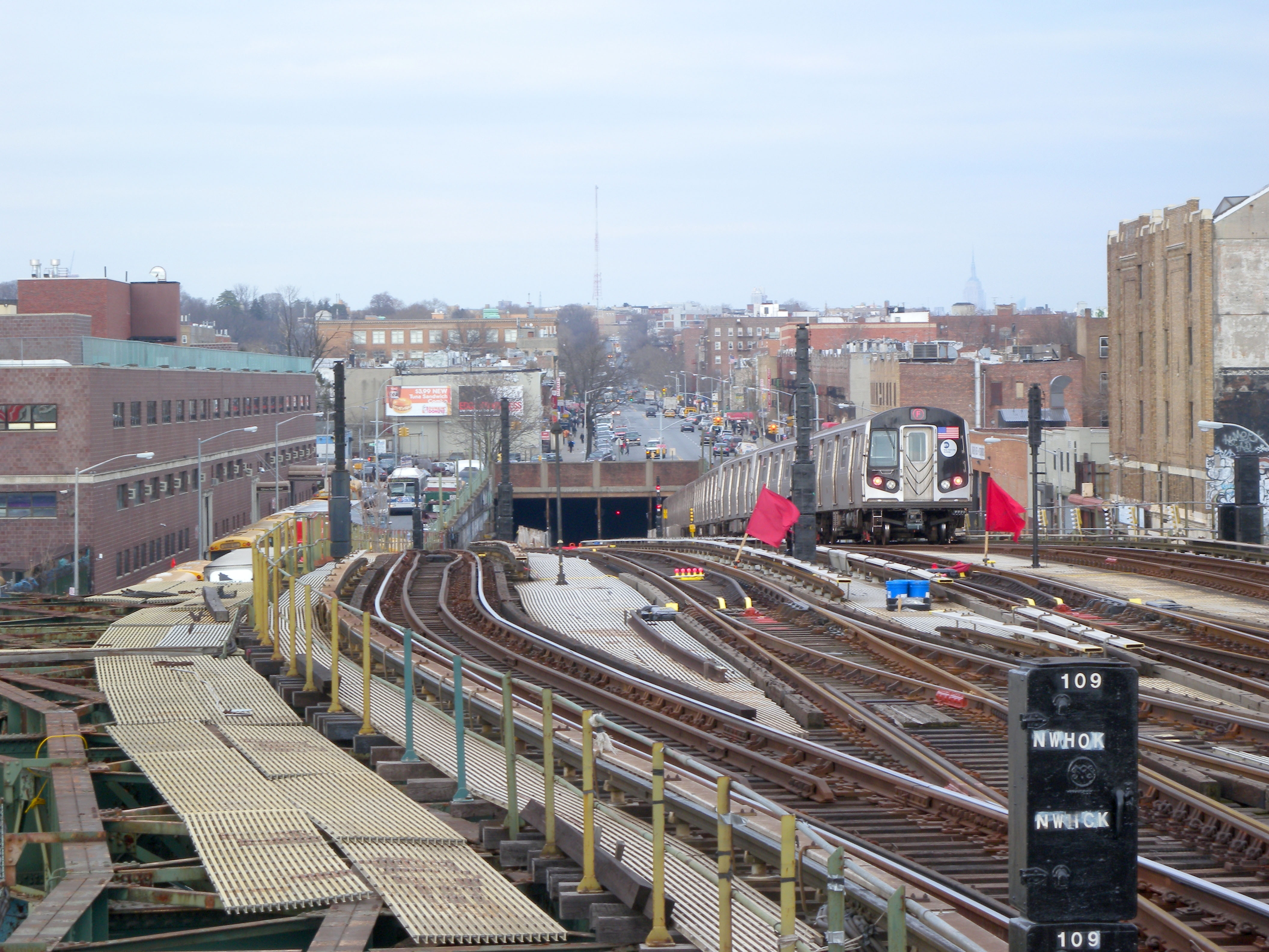 Looking north from southbound platform of Ditmas Avenue (IND Culver Line) as F train descends into tunnel. See also File:Down Culver Ramp jeh.JPG.